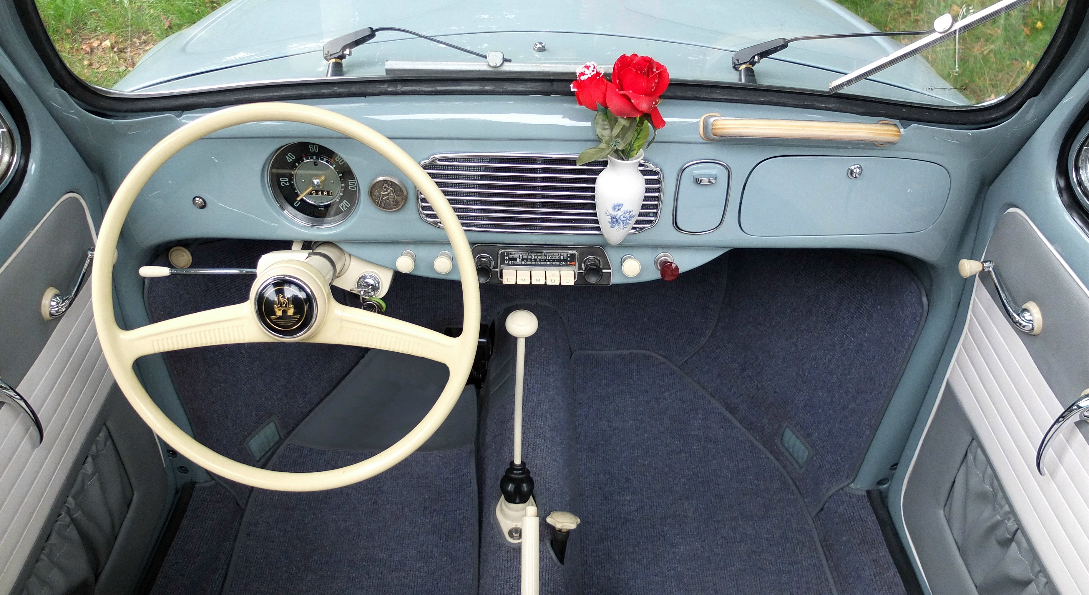 Cockpit of a Volkswagen Beetle "Ovali" (1957)